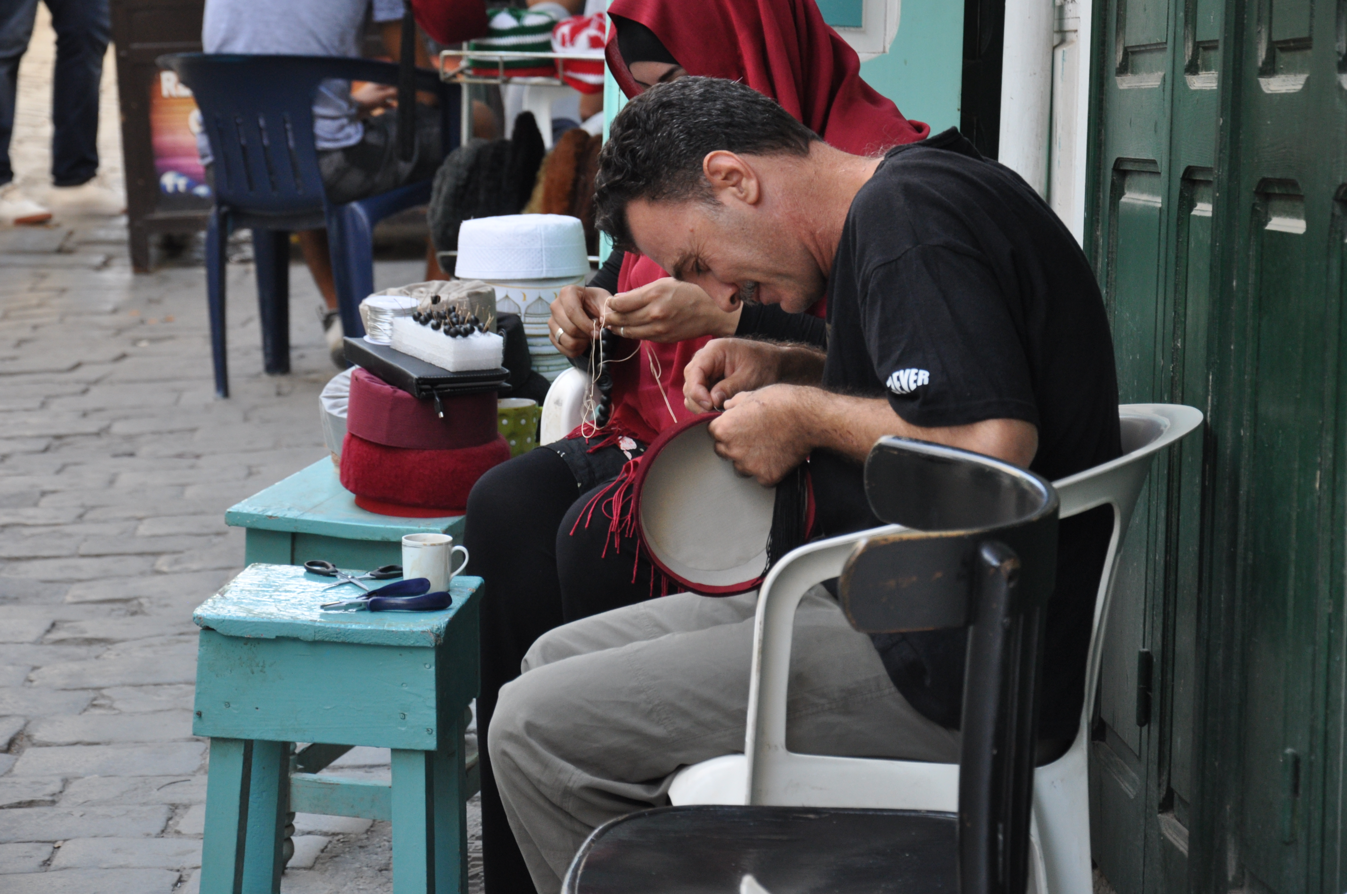 This is an image of "African people at work" from Tunisia